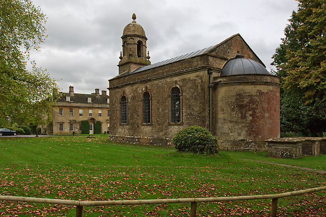 St Margaret's parish church (right foreground) and Babington House (left background), Babington, Somerset, seen from the southeast